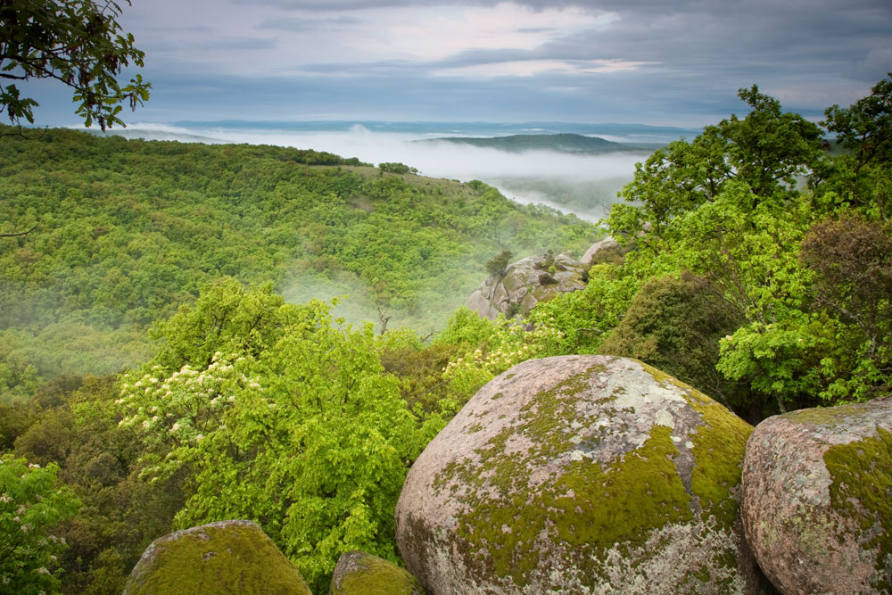 View from Ranuli